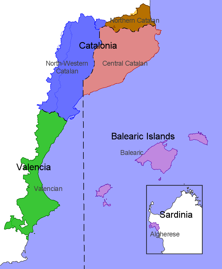 The isogloss separates Western dialects from Eastern ones; the latter of which only allow [i], [ə], and [u] to appear in unstressed syllables and include North Catalan (brown), central Catalan (red), Balearic, and alguerès (purple). Western dialects, which allow any vowel in unstressed syllables, include north-western Catalan (blue), and Valencian (green).